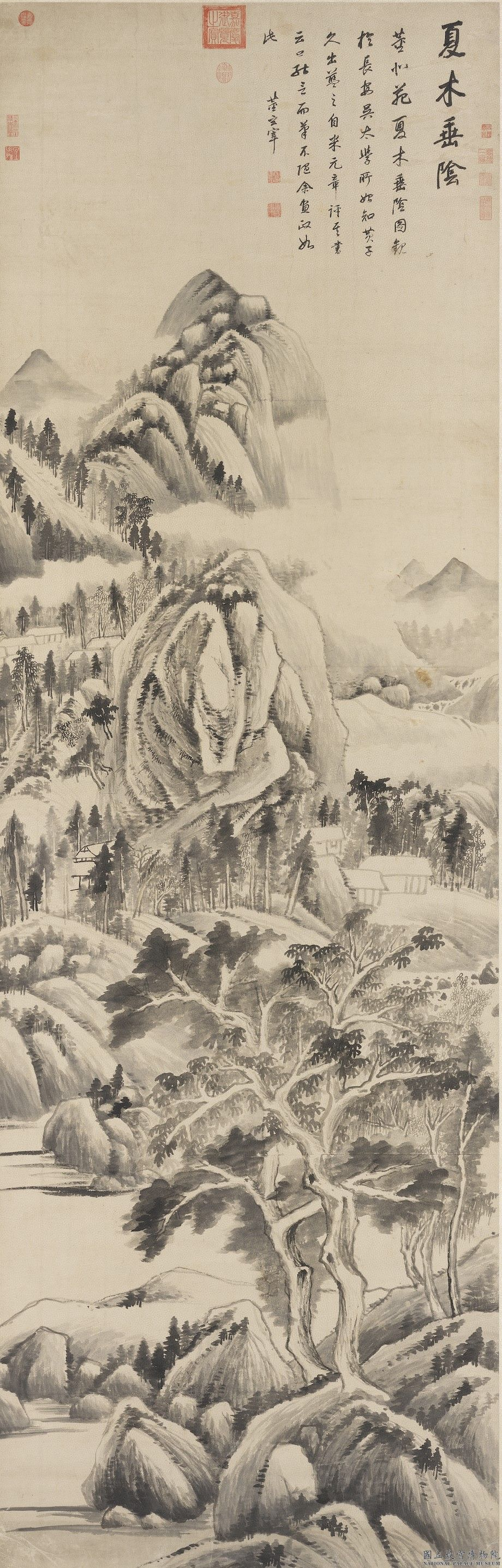 This painting is drawn by Ancient Chinese painter 董其昌 in Ming Dynasty (AD1368 - 1644), therefore the copyrighted is expired.